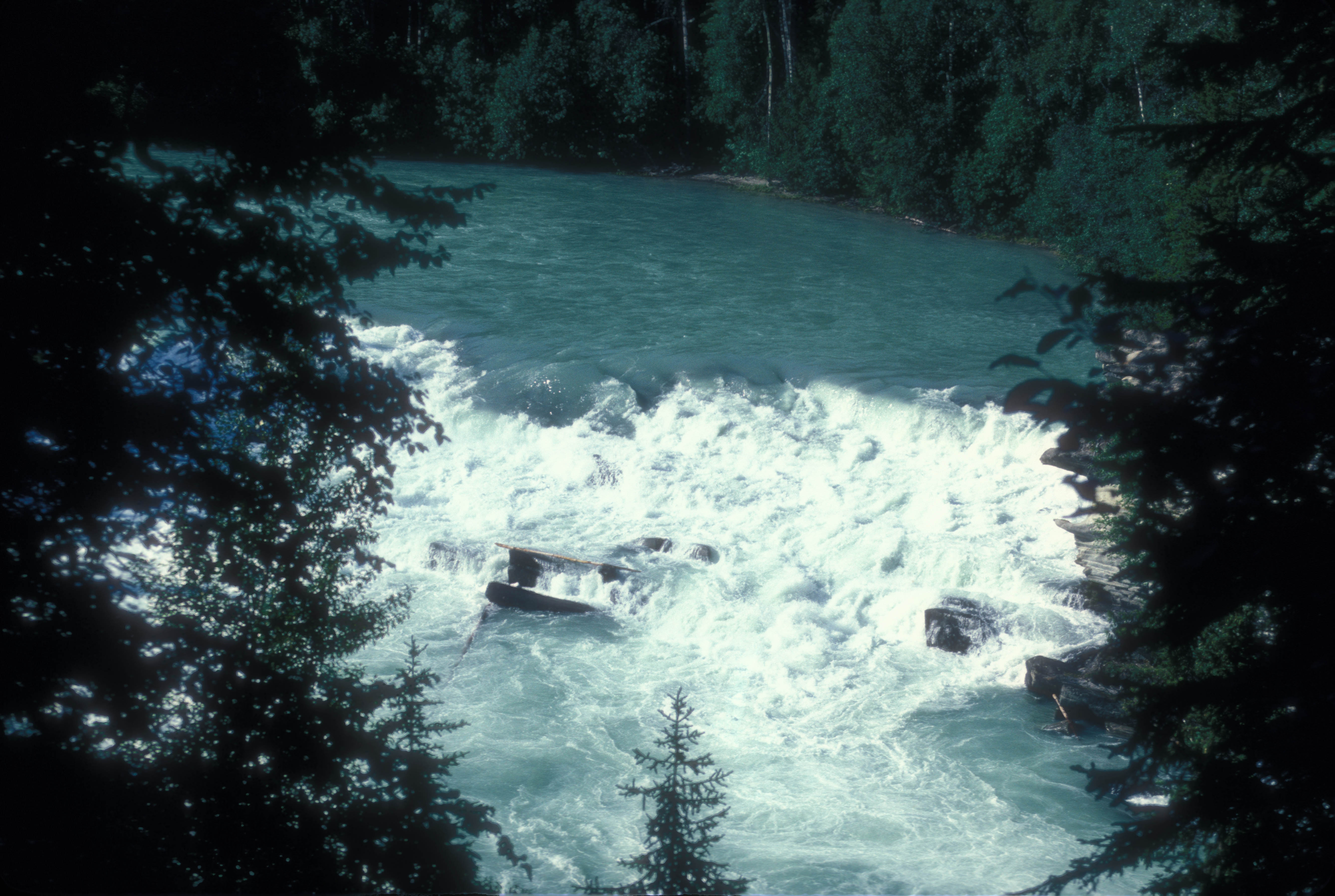 PROVINCIAL PARK IN BRITISH COLUMBIA, CANADA, PROTECTING THE WATERFALL OF THE SAME NAME, WHICH IS ON THE FRASER RIVER JUST ABOVE ITS EMERGENCE INTO THE ROCKY MOUNTAIN TRENCH NEAR THE COMMUNITY OF TETE JAUNE CACHE. THE FALLS ARE THE UPPER LIMIT OF THE MIGRATION OF SALMON FROM THE PACIFIC OCEAN